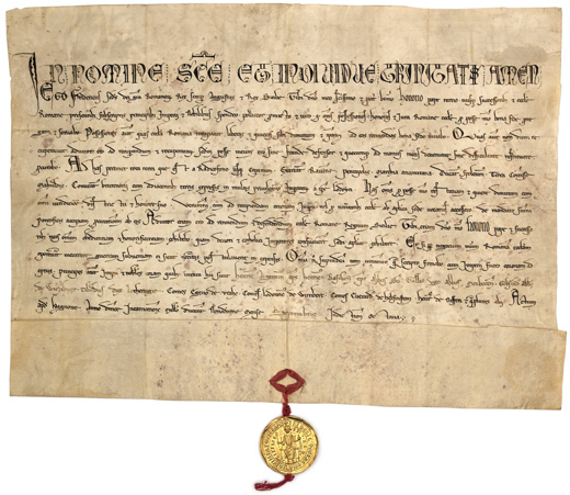 Frederick II, King of Sicily, swears an oath to Pope Honorius III, in which he undertakes to protect and preserve the possessions of the Roman Catholic Church, to defend the Reign of Sicily, and to confirm such engagements in the future, when crowned Holy Roman Emperor. Given in Haguenau, September 1219. Recto of a parchment with the gold seal of the Frederick II. The document is currently stored in the Vatican Secret Archives.